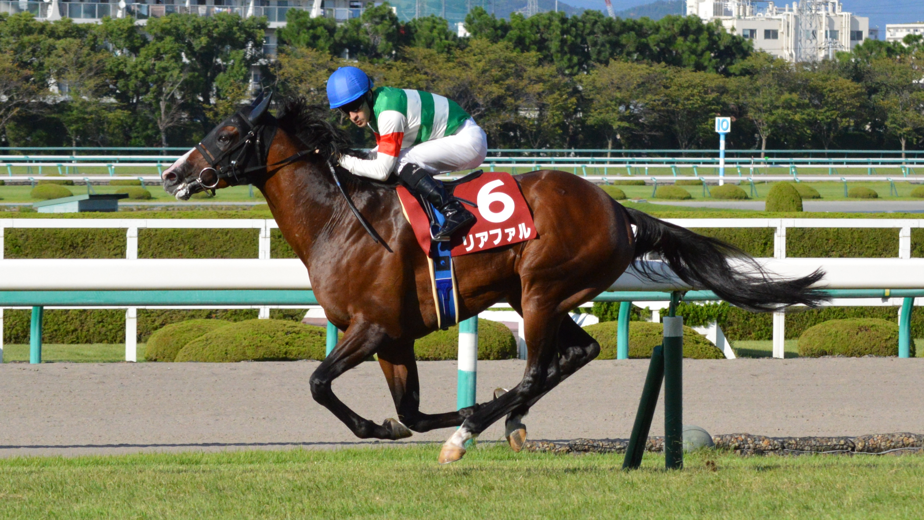 Japanese race horse Lia Fail at Hanshin racecourse.